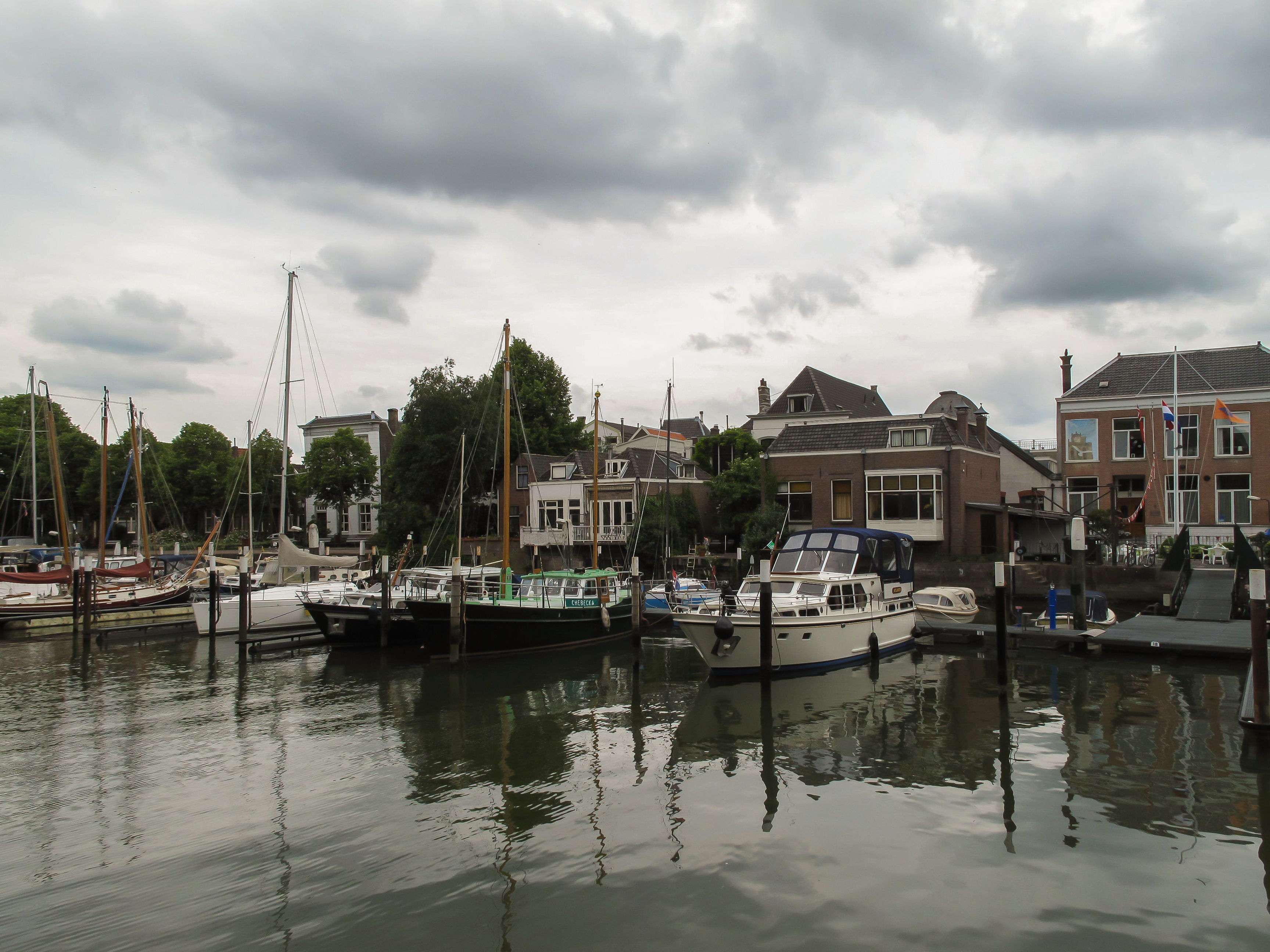 Dordrecht, harbour